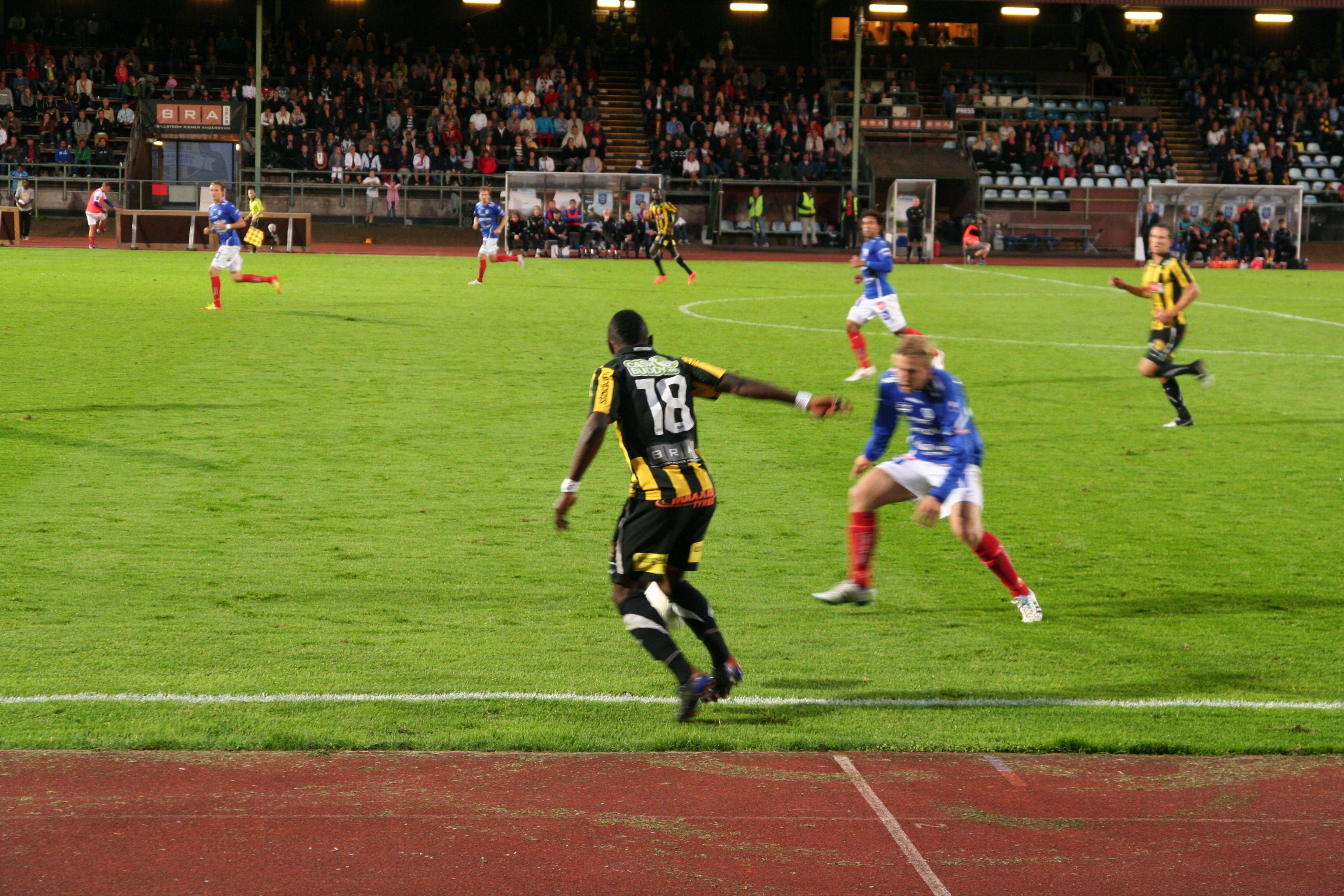 The match between BK Häcken and Åtvidabergs FF on Rambergsvallen in Göteborg, Sweden. Photo from the northern grandstand.